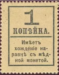 Stamp money of Russia, 1917.